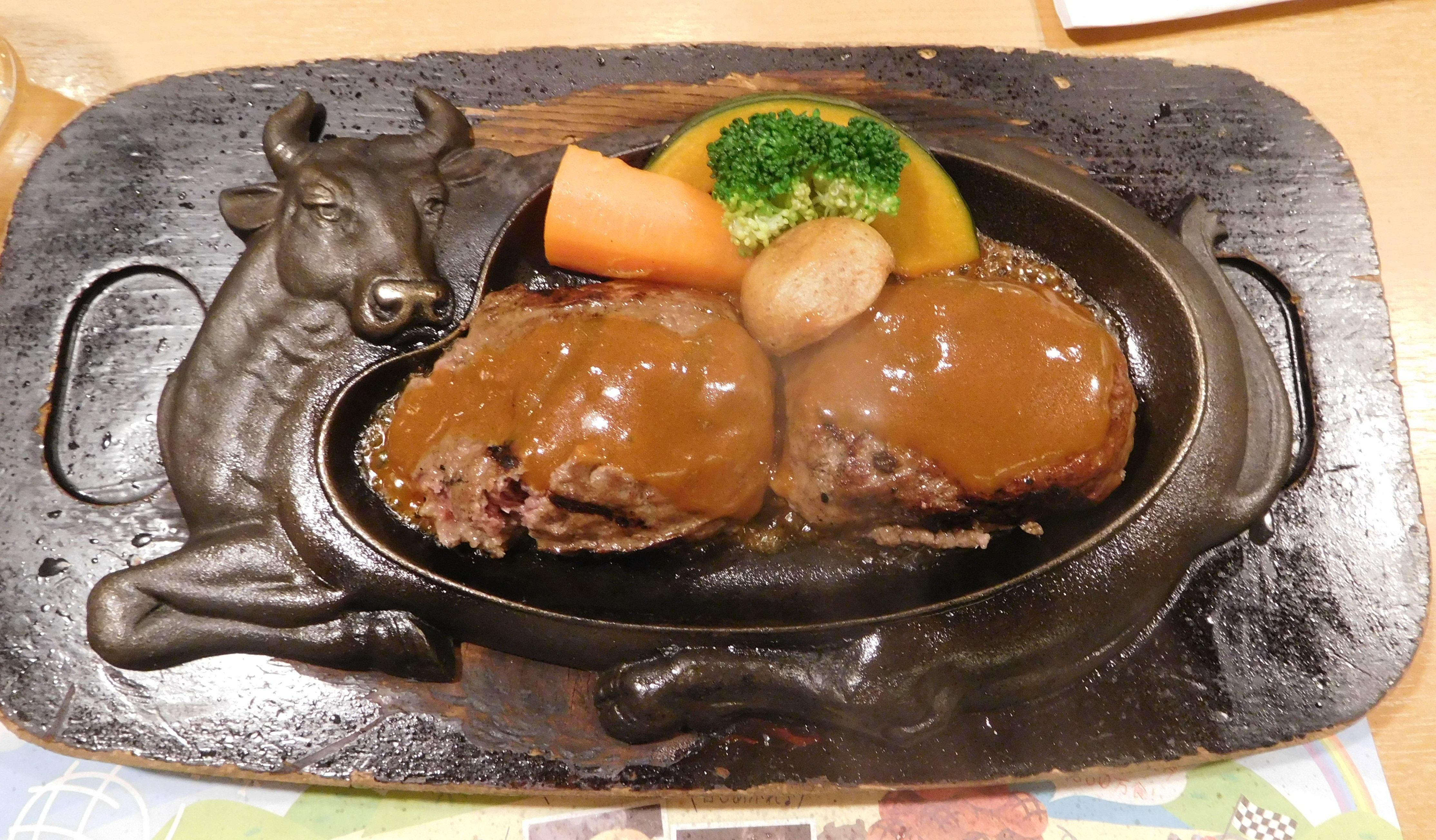 This is "Genkotsu Humburg Steak" served by a Japanese restaurant chain Sumiyaki restaurant Sawayama.